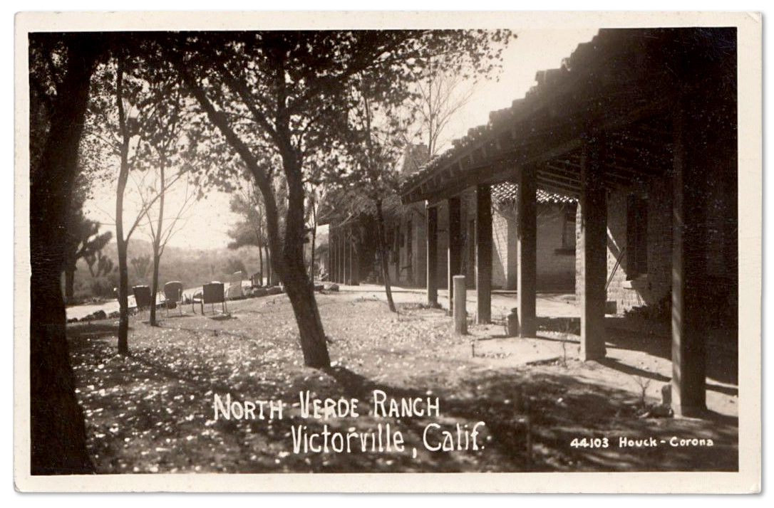 Photo postcard of the North Verde Ranch, Victorville, California, postmarked August 6, 1946 Marked at lower right: 44103 Houck - Corona Postcard printed prior to 1943, when the name changed from North Verde Ranch to Kemper Campbell Ranch, per news story here and this oral history